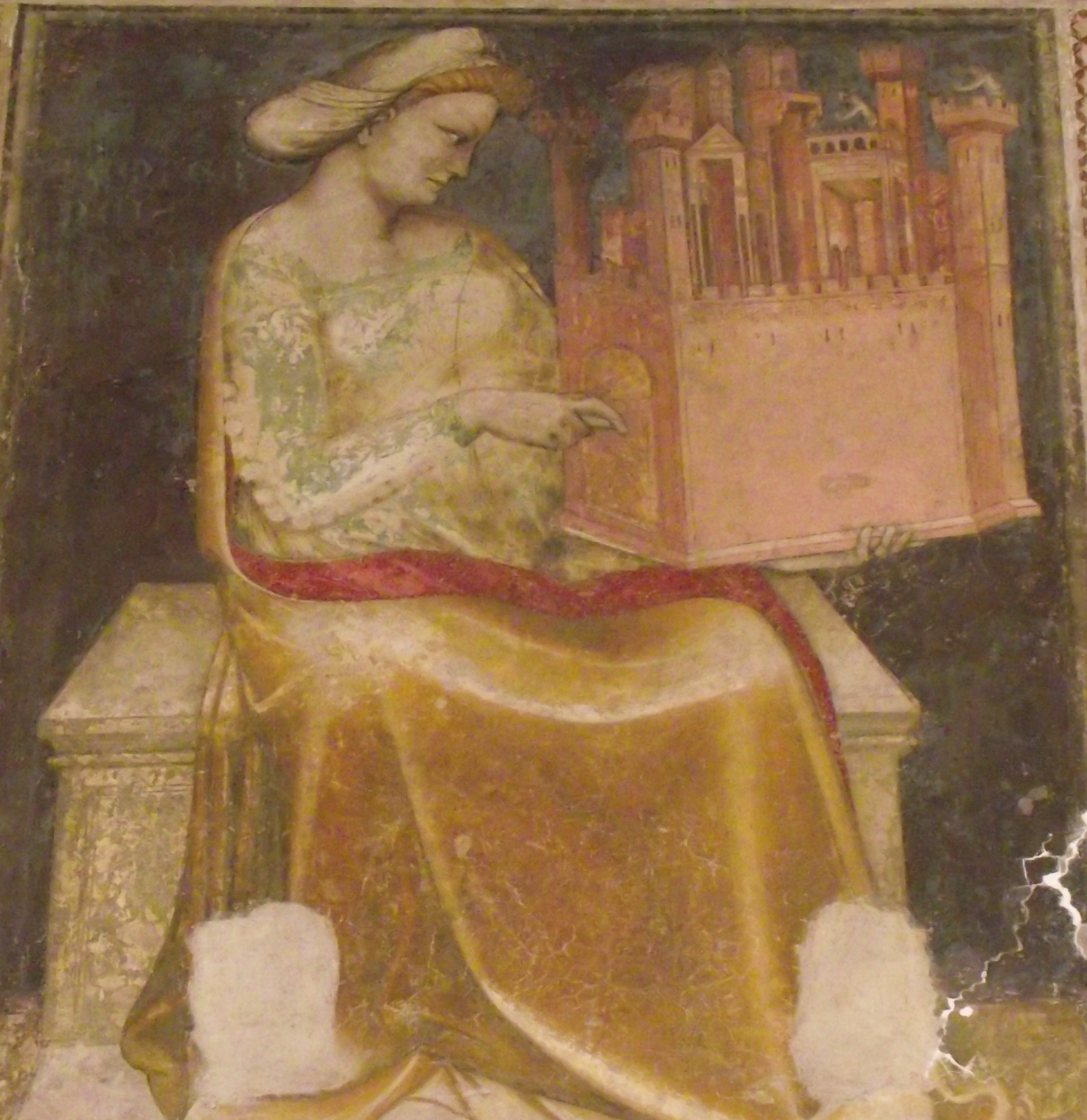 Stefano da Ferrara, allegory of Temperance (cardinal virtue), fresco, 1360-1370, Salone Casa Minerbi - Del Sale, Ferrara